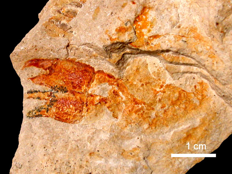 Crab impression from the Jurassic of Neuquen, Argentina